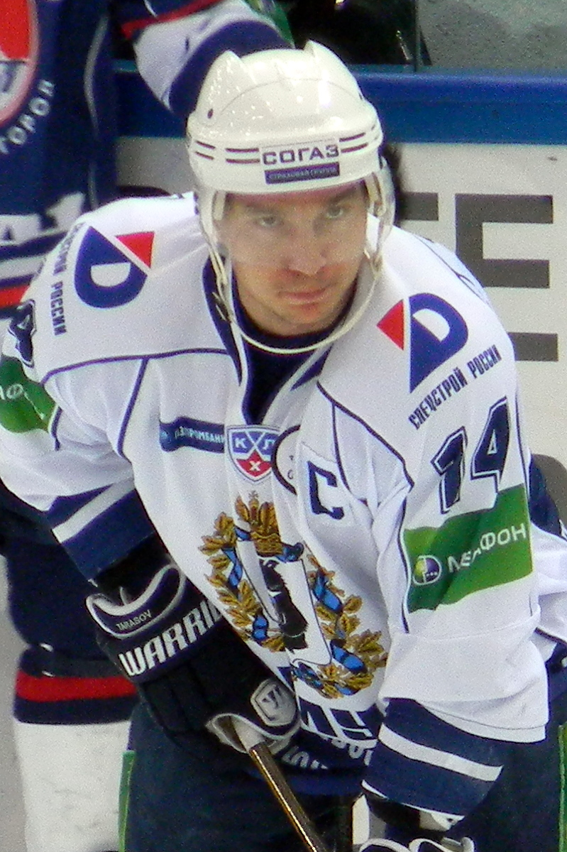 Dmitri Tarasov, an ice hockey player from Amur Khabarovsk